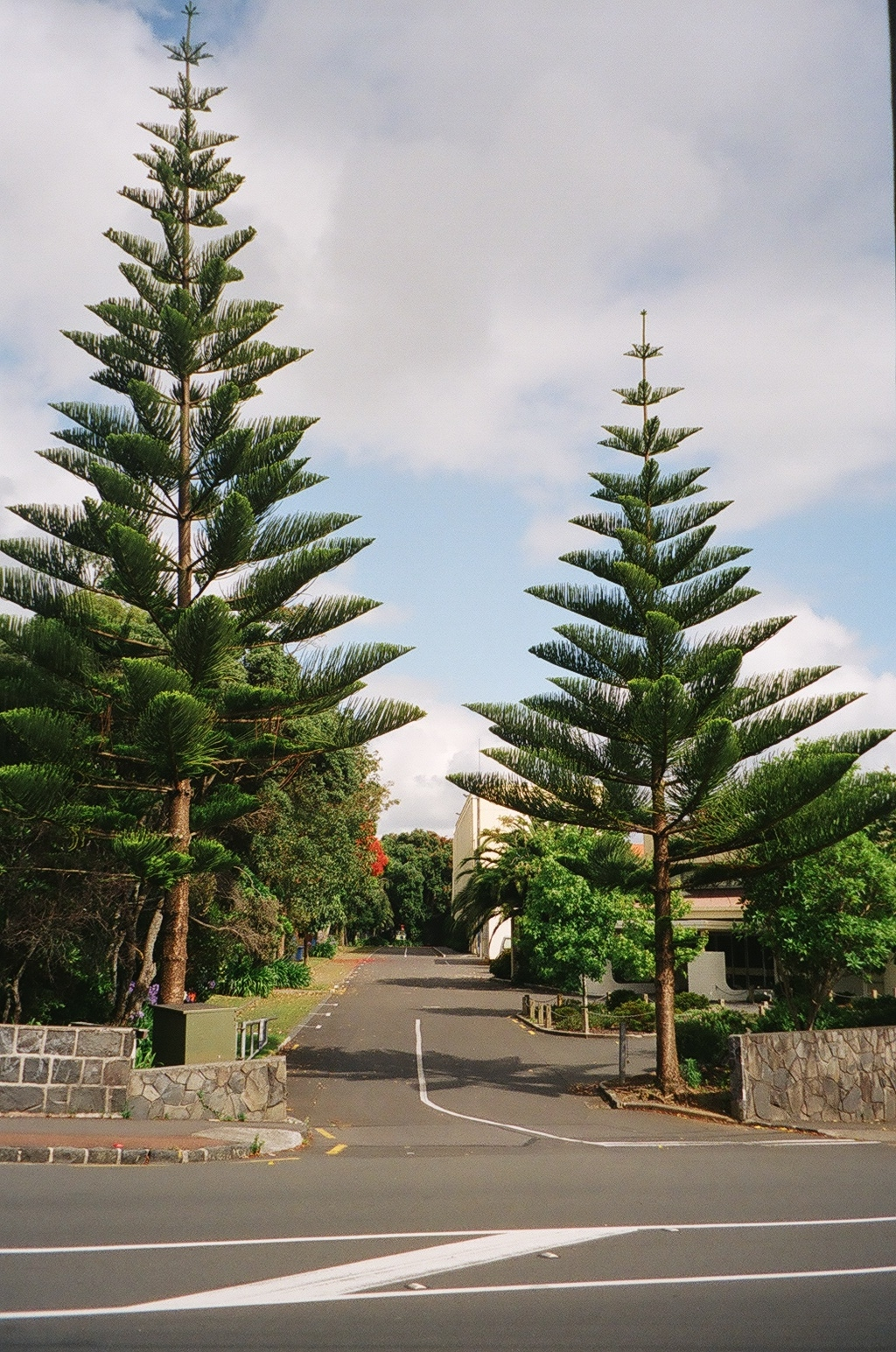 St Peter's College main entrance (former site of Reeves Road)